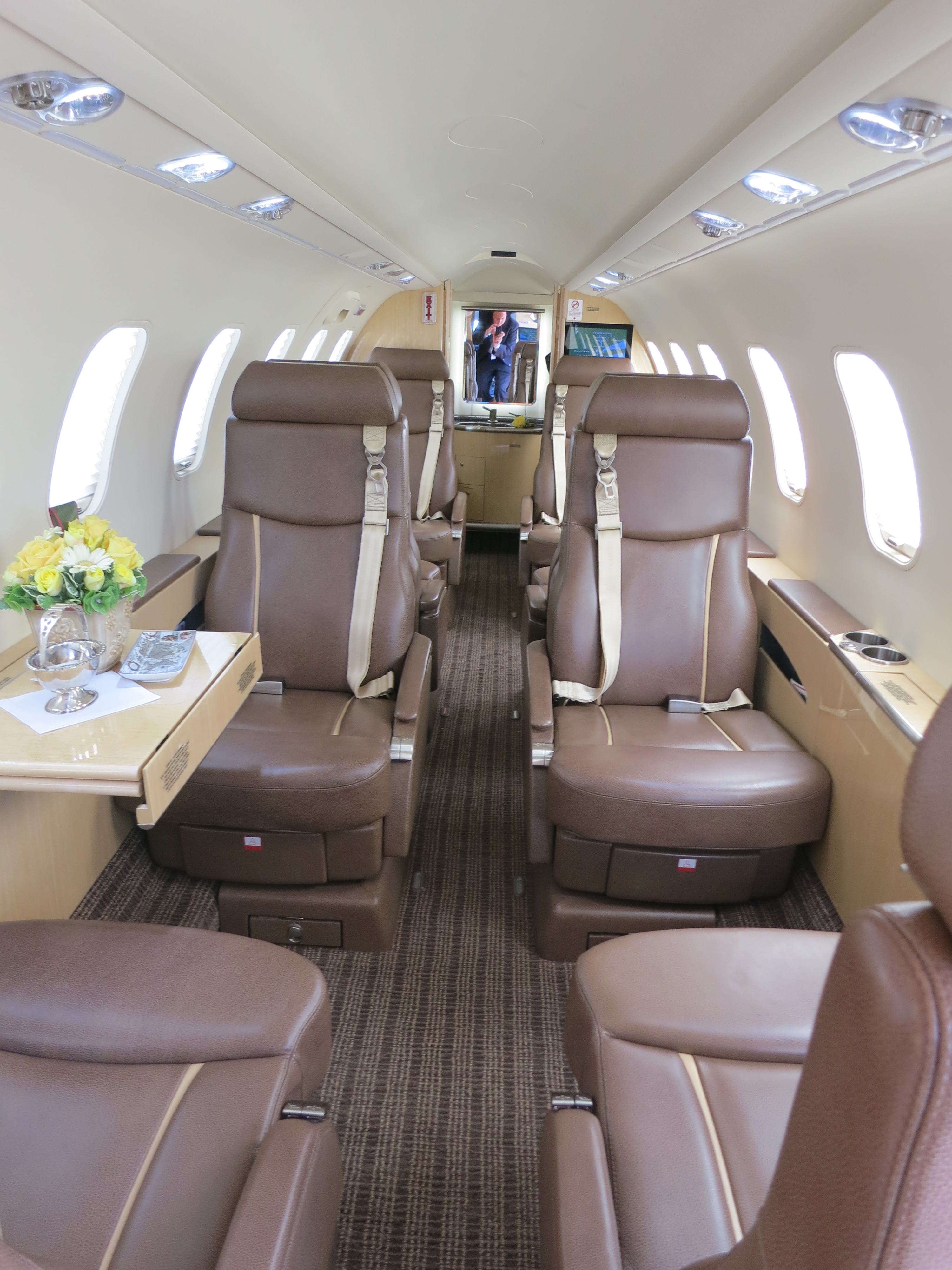 Bombardier Learjet 45 XR interior cabin.